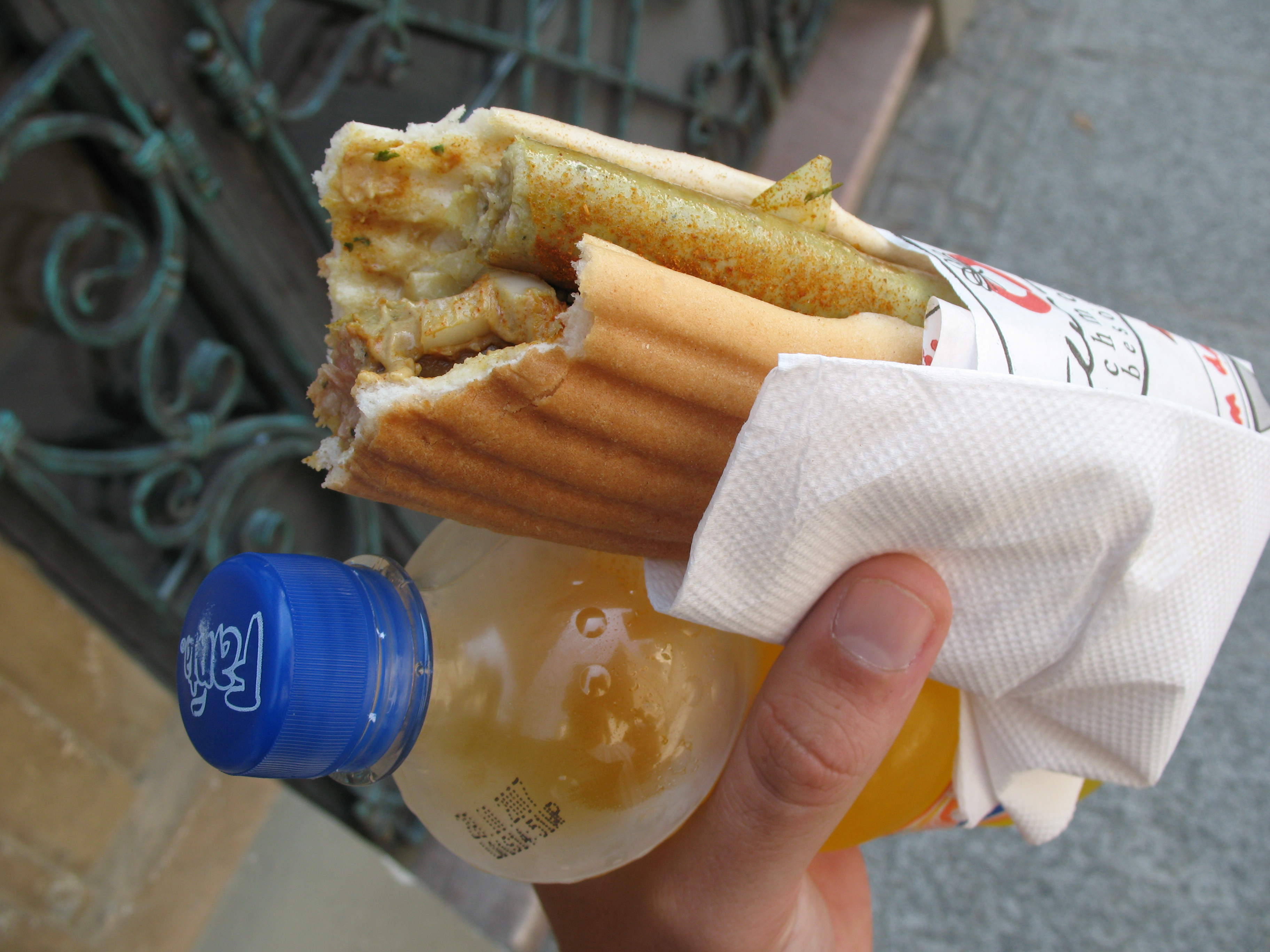 Bosna from University Plaza, Salzburg, Austria